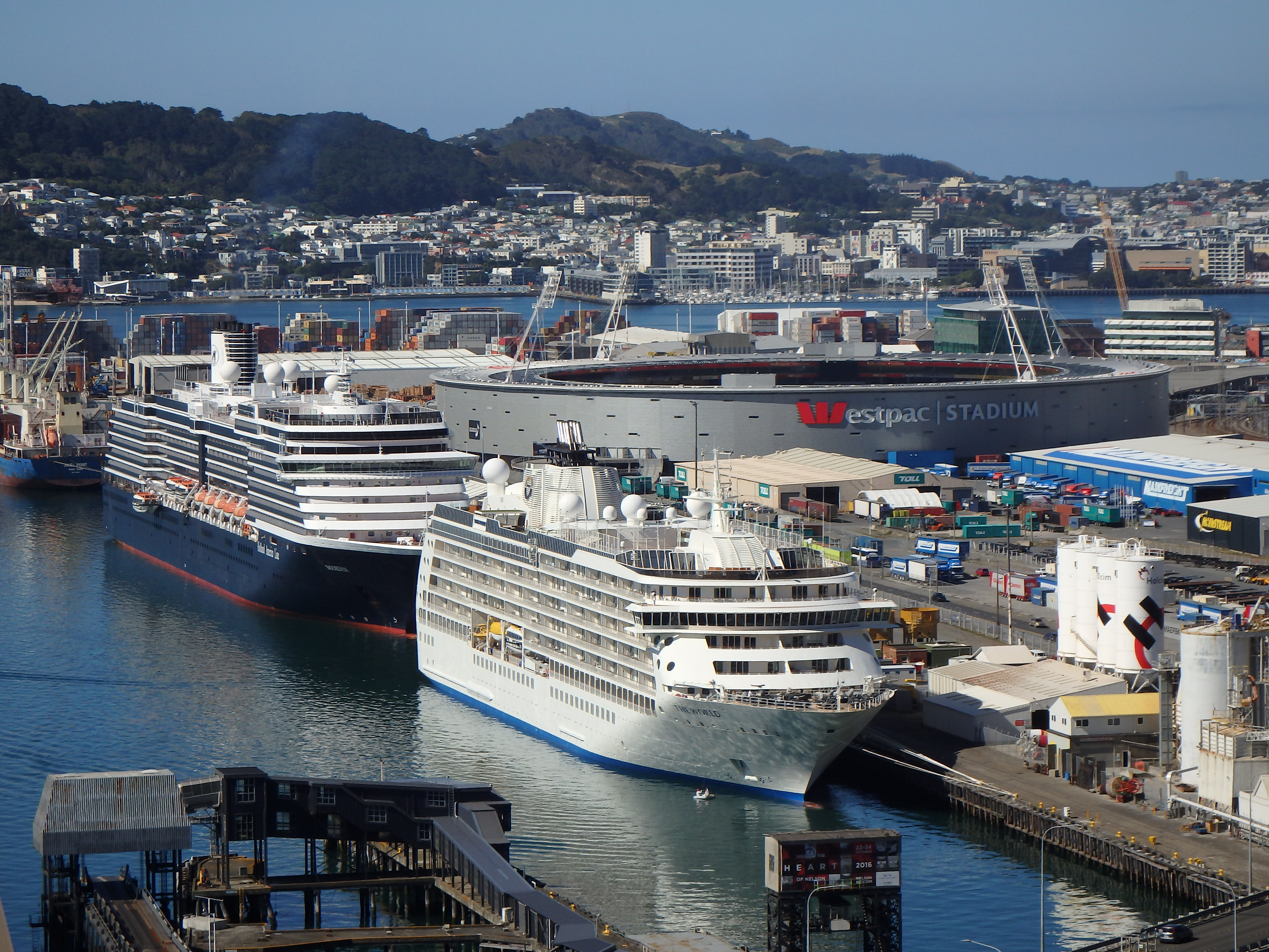 Noordam and The World cruise ships at Aotea Quay, Wellington New Zealand